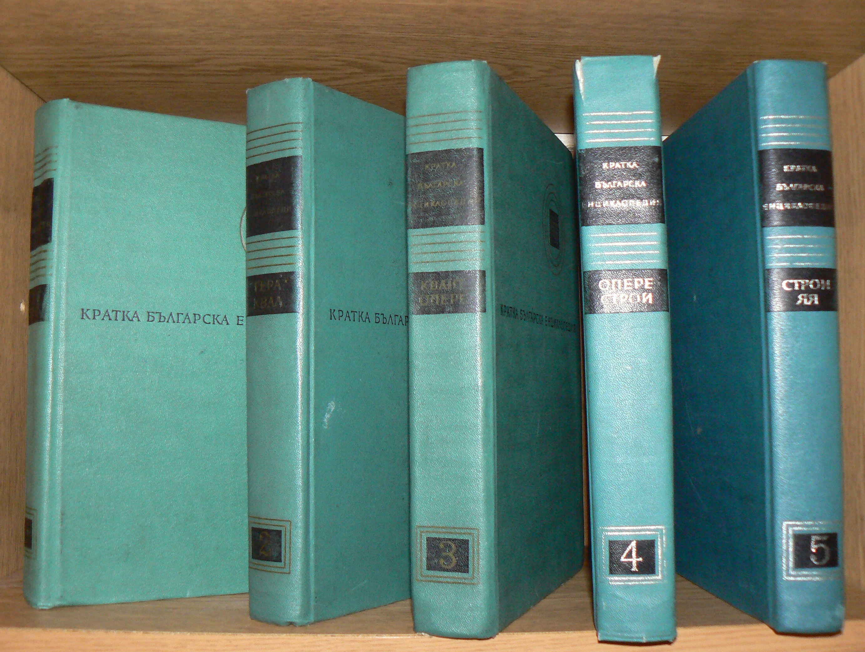 "Short Bulgarian Encyclopedia" in 5 volumes (1963-1969)